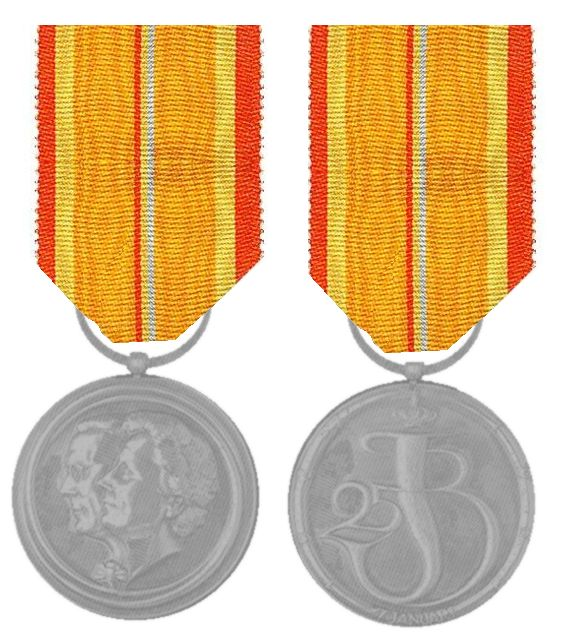 Marriagemedal Netherlands 1962